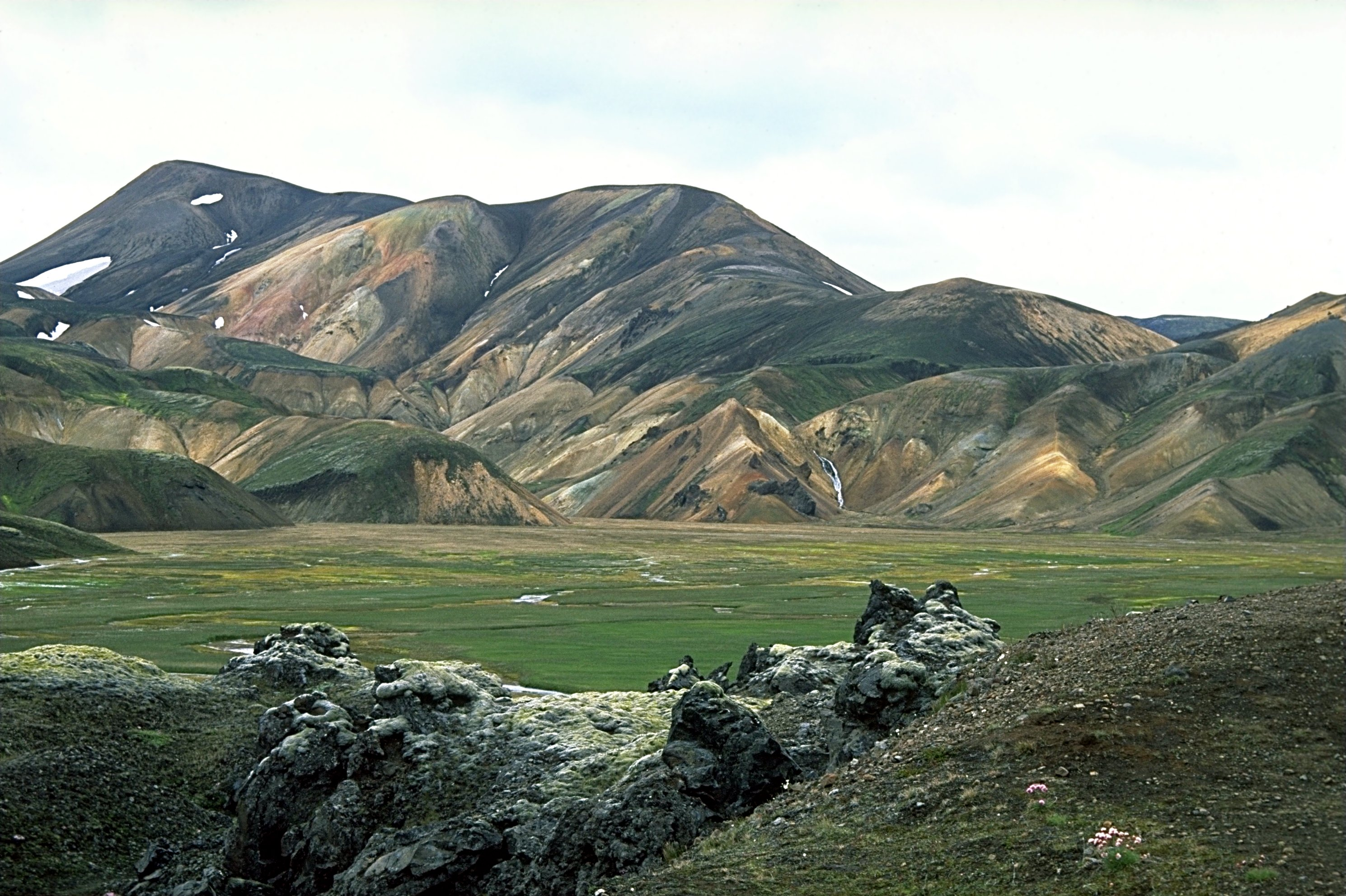 Laugavegur at Landmannalaugar, Iceland Photo was taken using the following technique: Film: Fuji Velvia Lens: 4/35-70 Filter: Body: Minolta Dynax 7 Support: Manfrotto 190B Image with Information in English Bild mit Informationen auf Deutsch